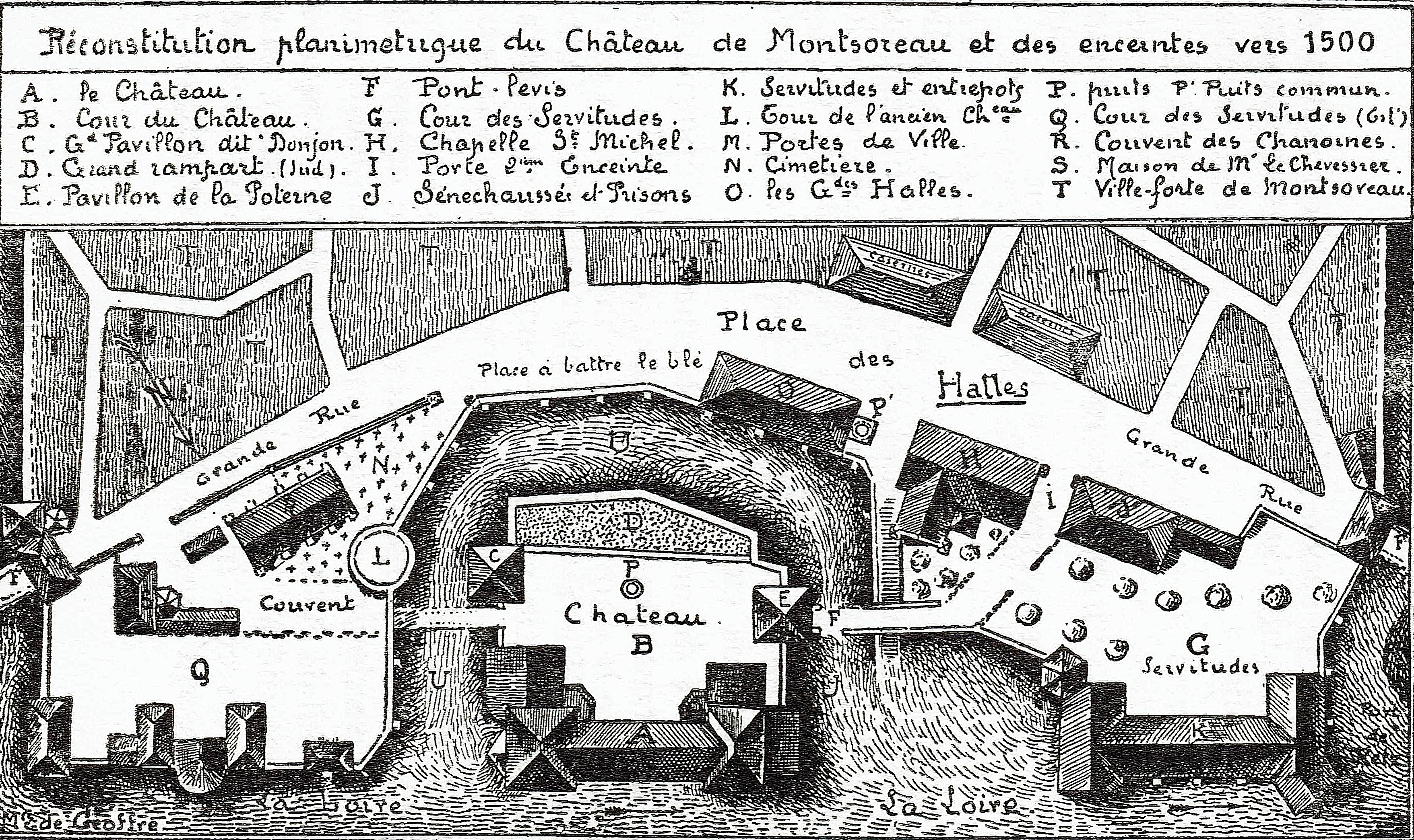 Map of the castle of Montsoreau and the organization of the site with the barracks, the church, the vegetable garden and the various accesses.